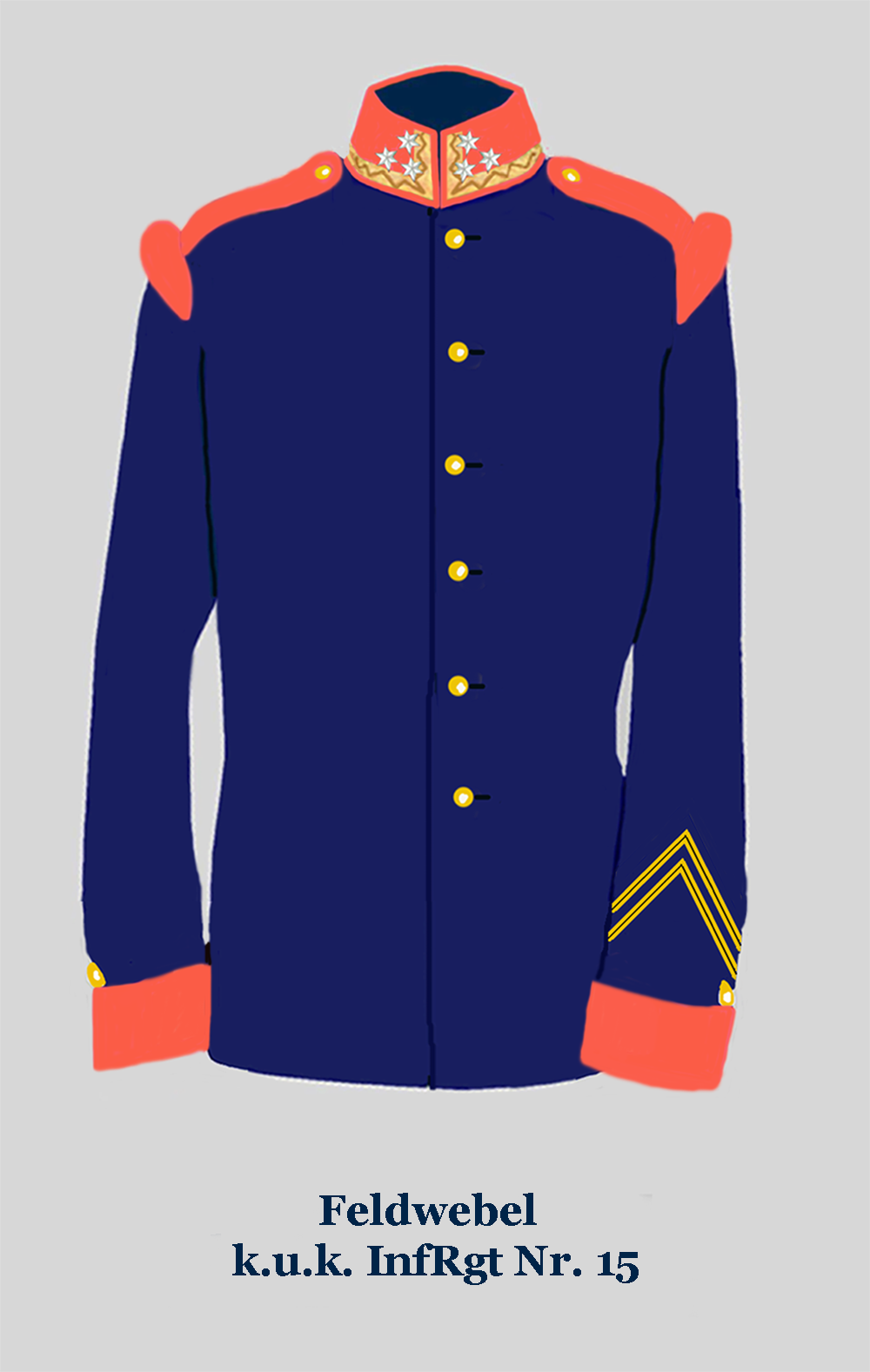 Master-Sergeant (German style tunic) of the Austria-Hungarian Army